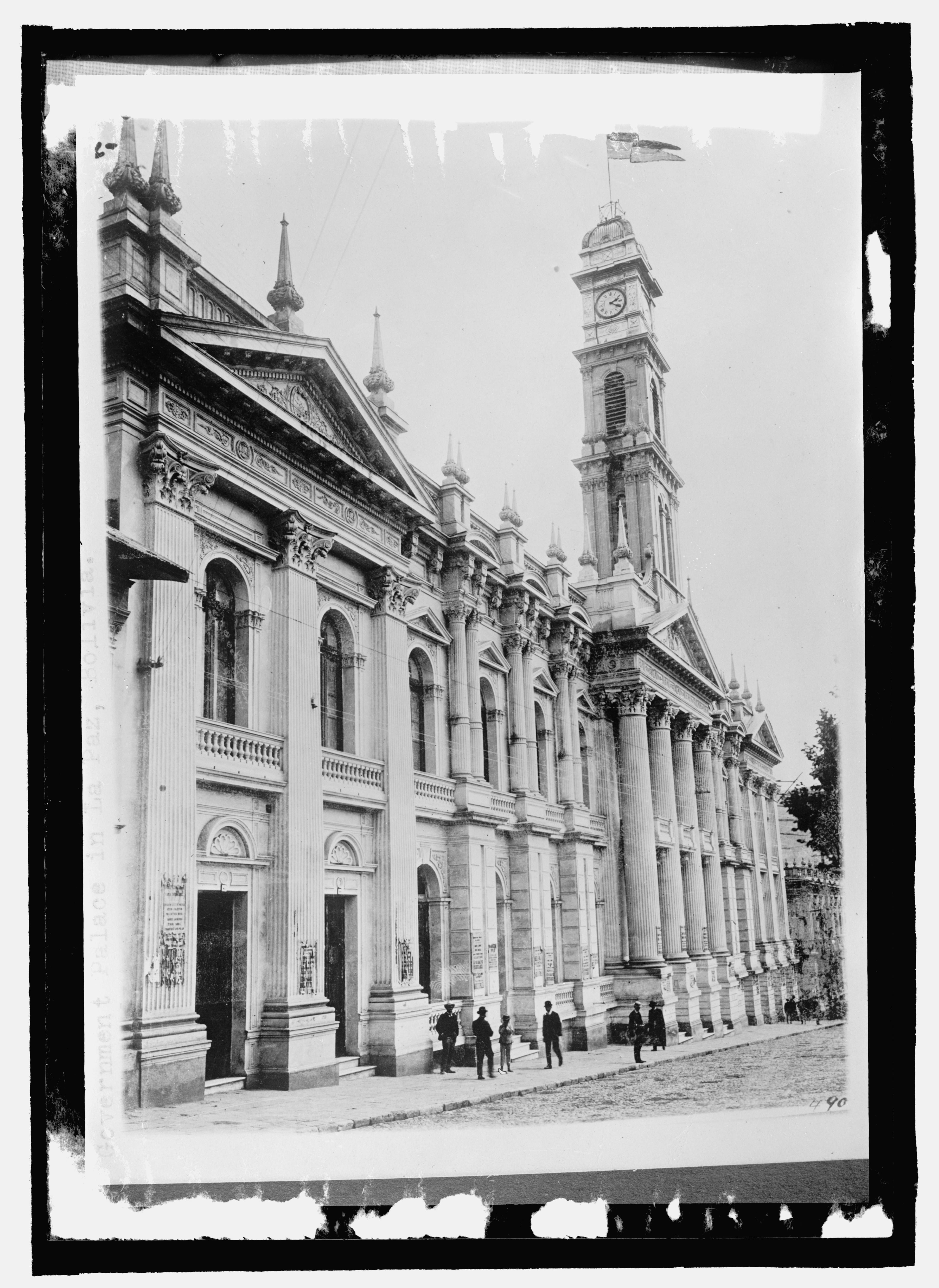 Title: Gov't. Palace, La Paz, Bolivia Abstract/medium: 1 negative : glass ; 5 x 7 in. or smaller